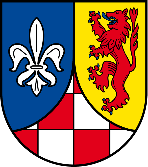 Coat of arms of Sohrschied